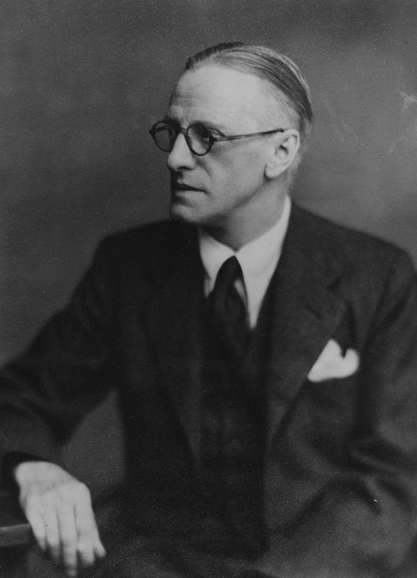 T.S. Aston in 1950.